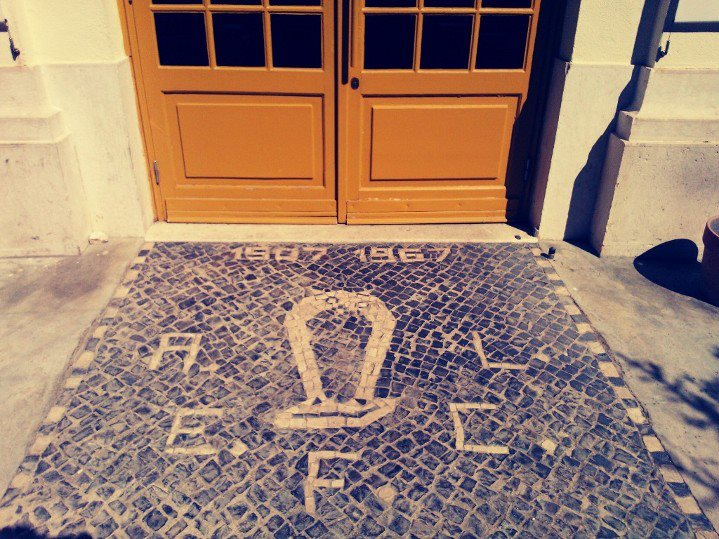 aefcl foto